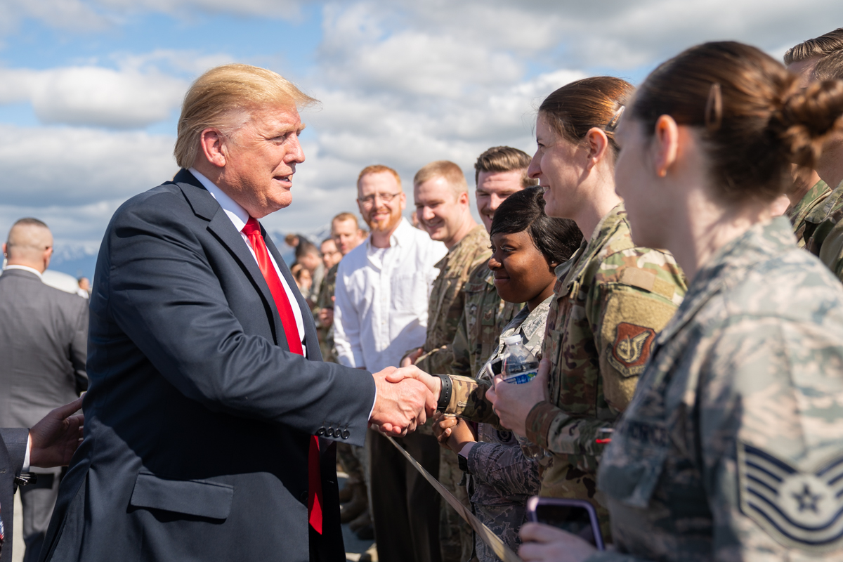 President Donald J. Trump greets the troops at Joint Base Elmendorf-Richardson, Friday, May 24, 2019, in Anchorage, Alaska, during a refueling stop en route to Tokyo, Japan. (Official White House Photo by Shealah Craighead)